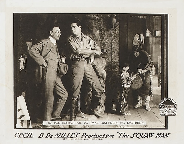 The Squaw Man is a 1918 American Western film directed by Cecil B. DeMille. This is a lobby card for the film.